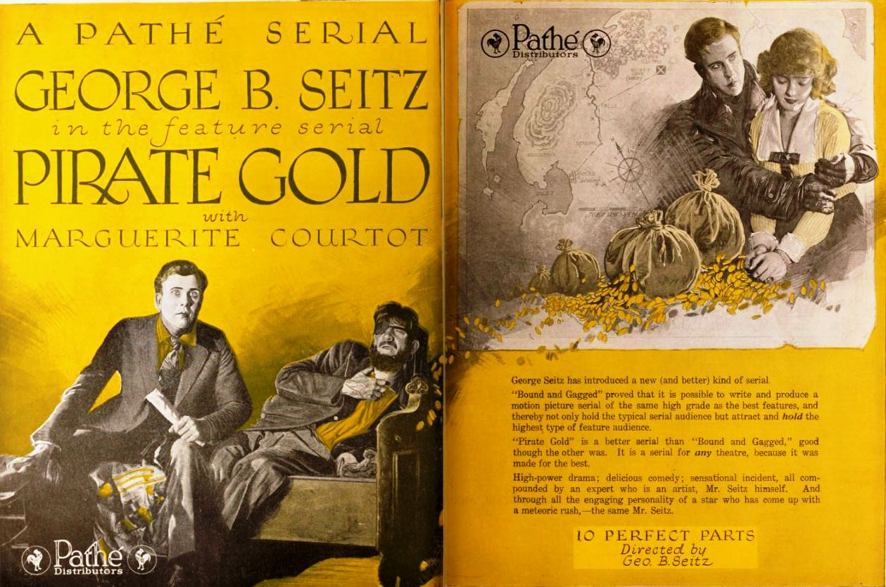 Advertisement for the American serial Pirate Gold (1920) with George B. Seitz and Marguerite Courtot, on pages 6 and 7 of the August 21, 1920 Exhibitors Herald.